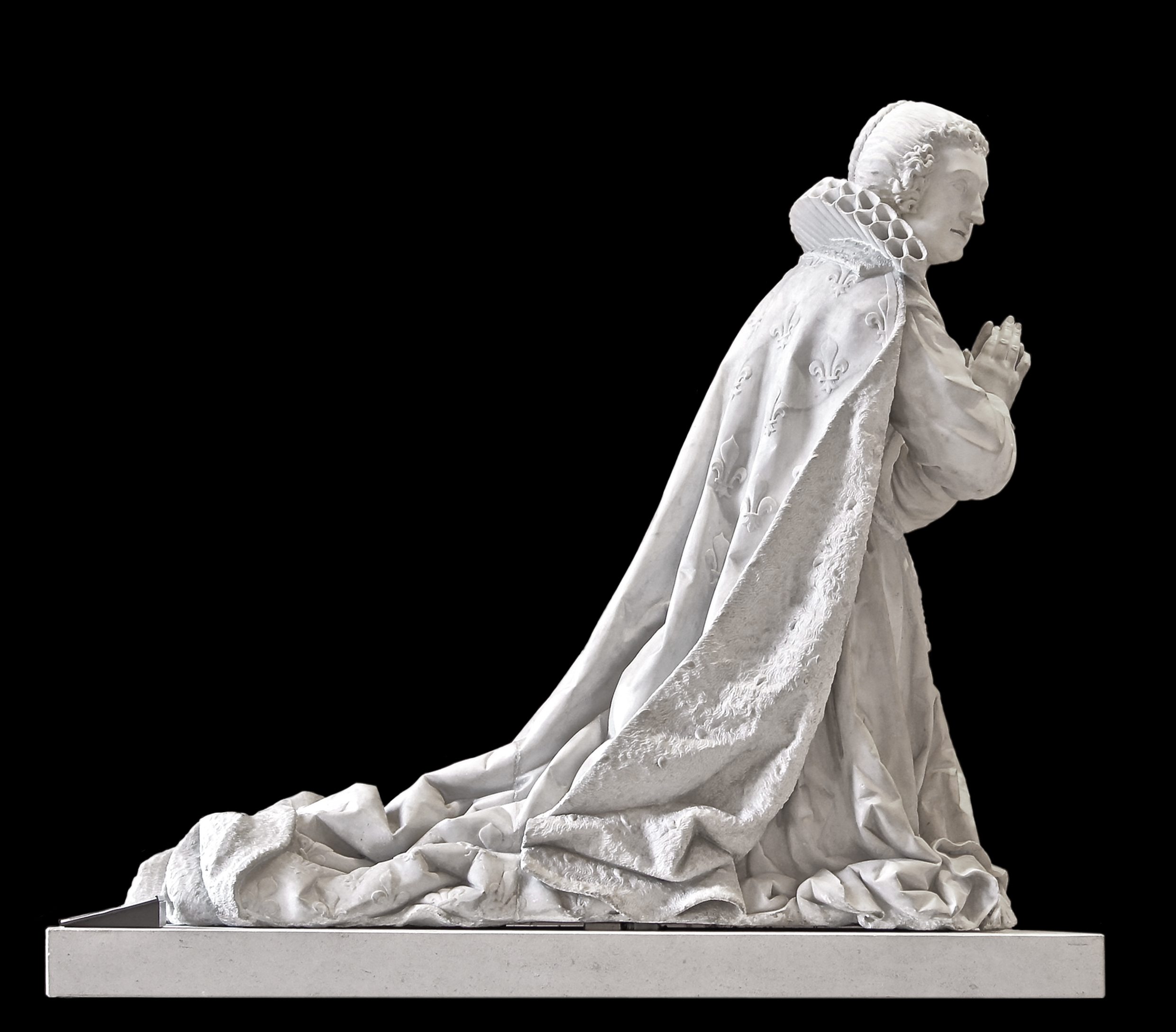 Statue from the tomb of Charlotte de la Tremoille, Princess of Condé (1568–1629)